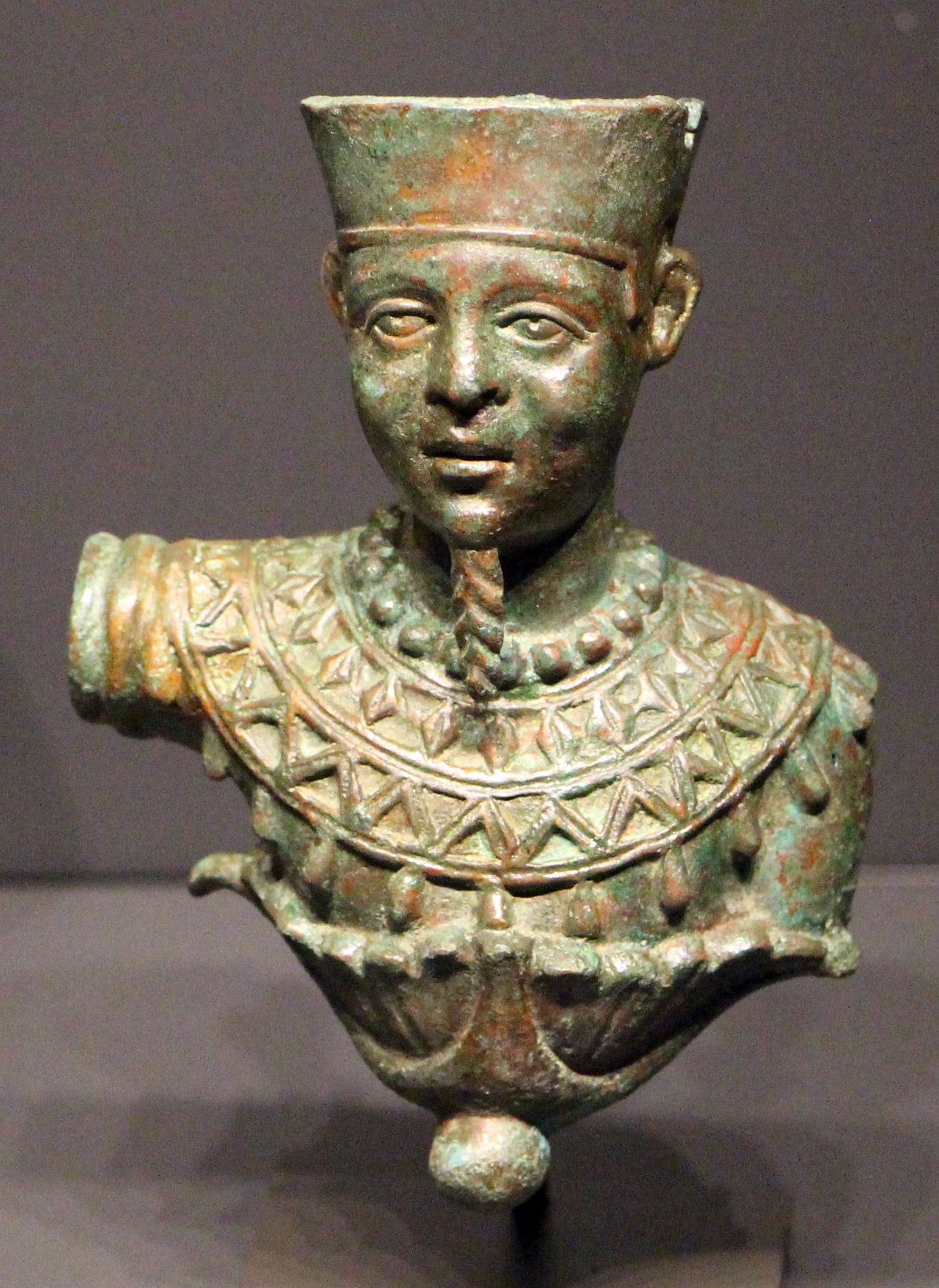 East Mediterranean in the Roman Empire antiquities in the Louvre